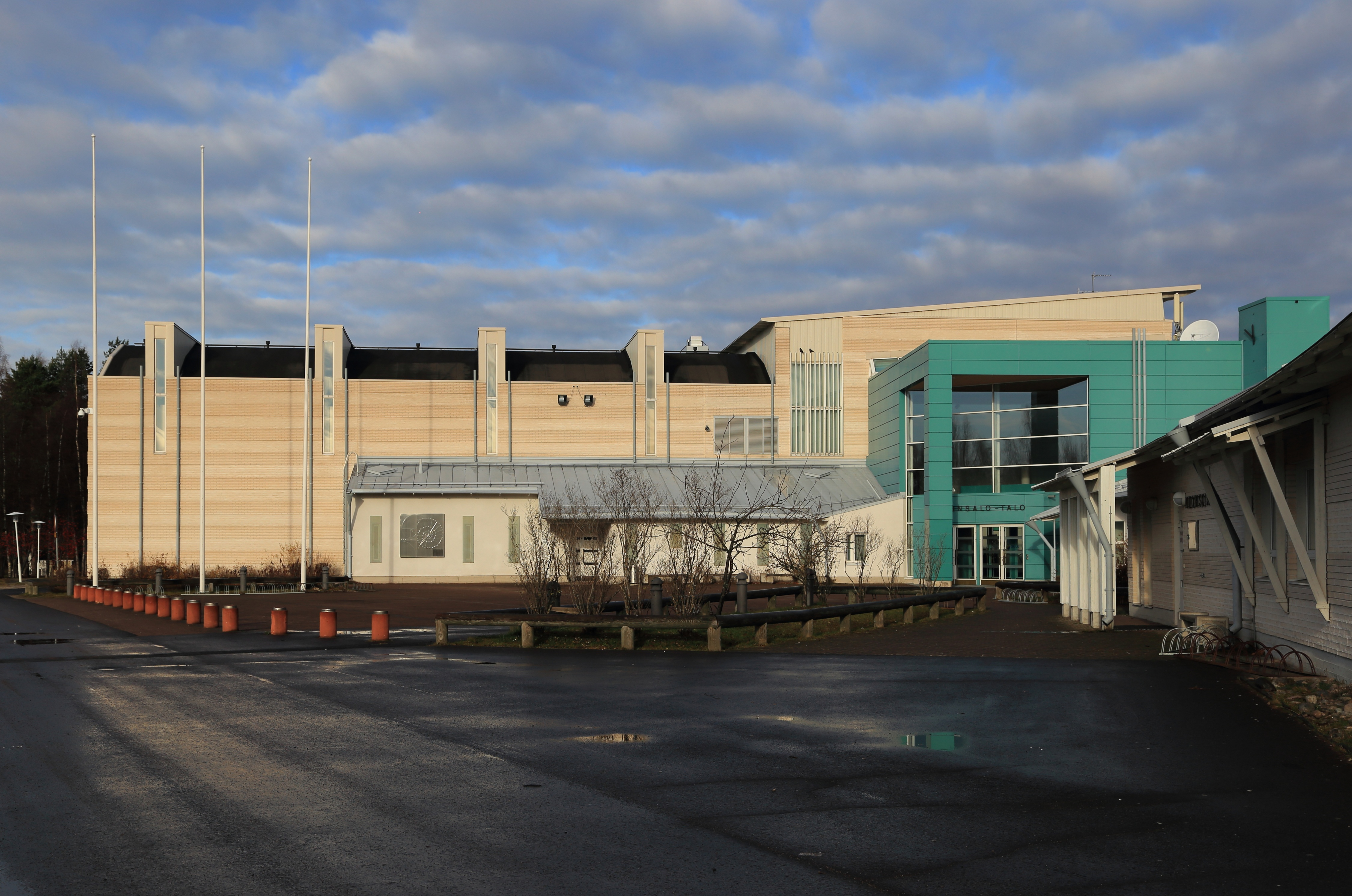 The Oulunsalo Community Centre